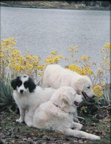 Natural habitat of the mucuchies dog.